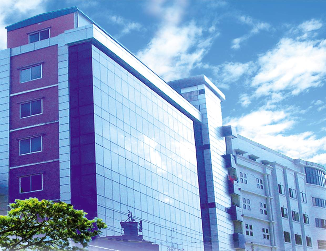 Premier university campus